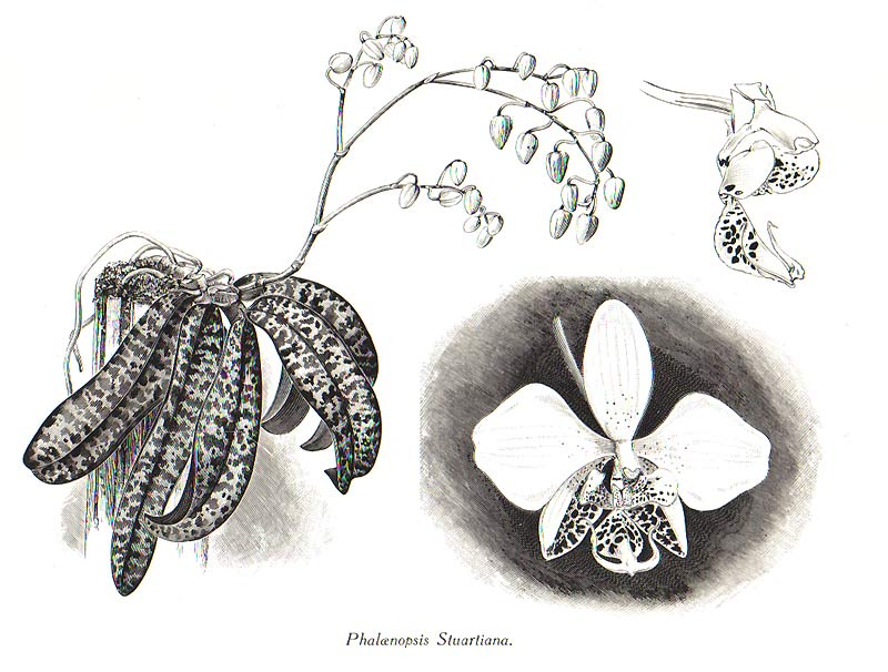 Phalaenopsis stuartiana